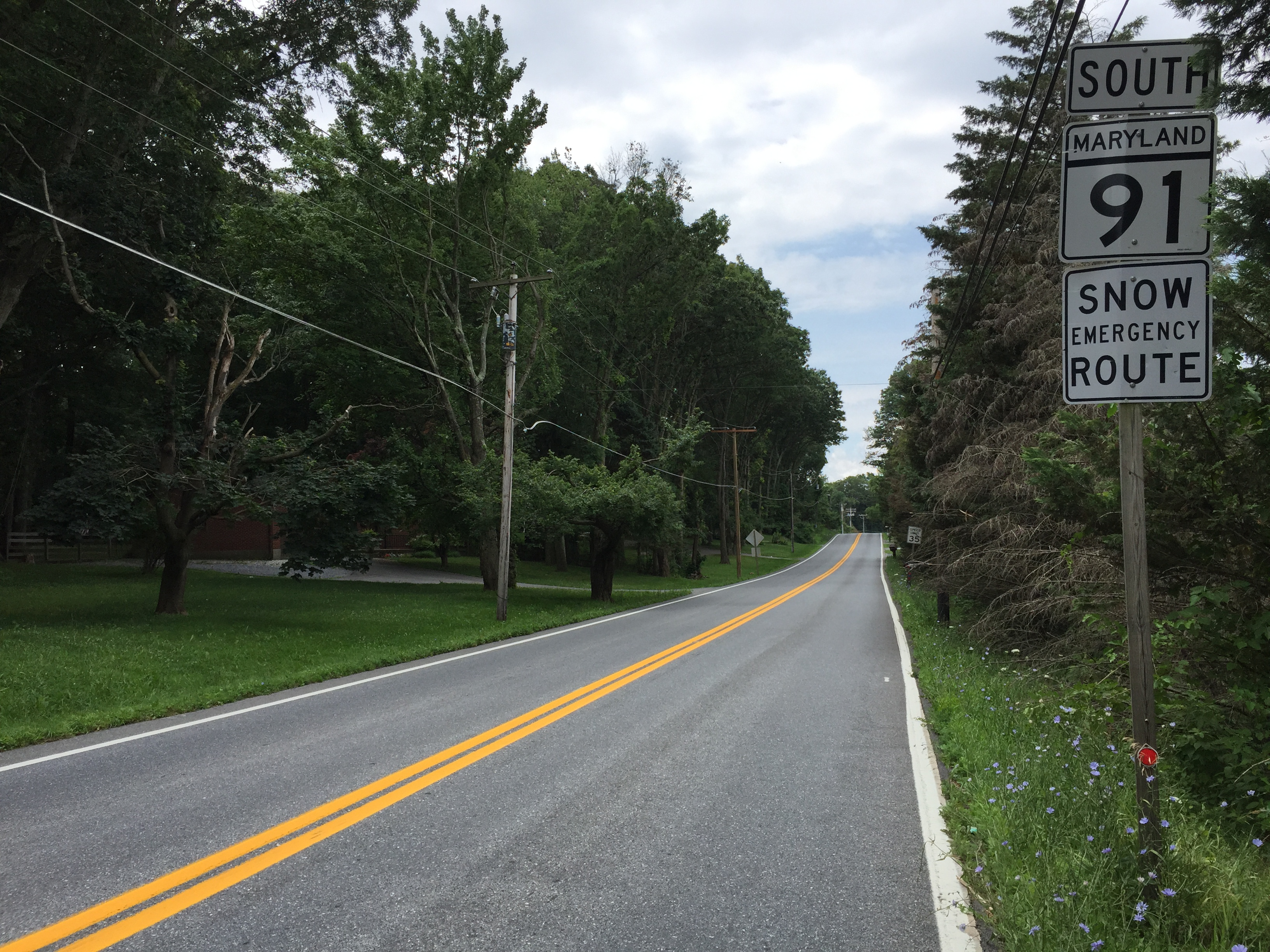 View south along Maryland State Route 91 (Emory Road) just south of Eastview Drive in Fowblesburg, Baltimore County, Maryland